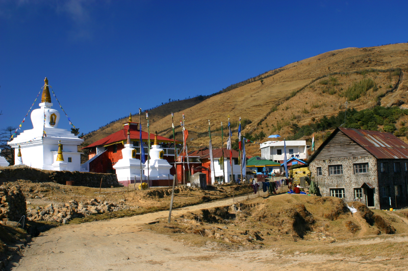 Meghma, a small village in our way to Sandakphu. Had rest and tea in Meghma. The meaning of Meghma means village covered with clouds, but lucky for me it was not clouded when I took the snap